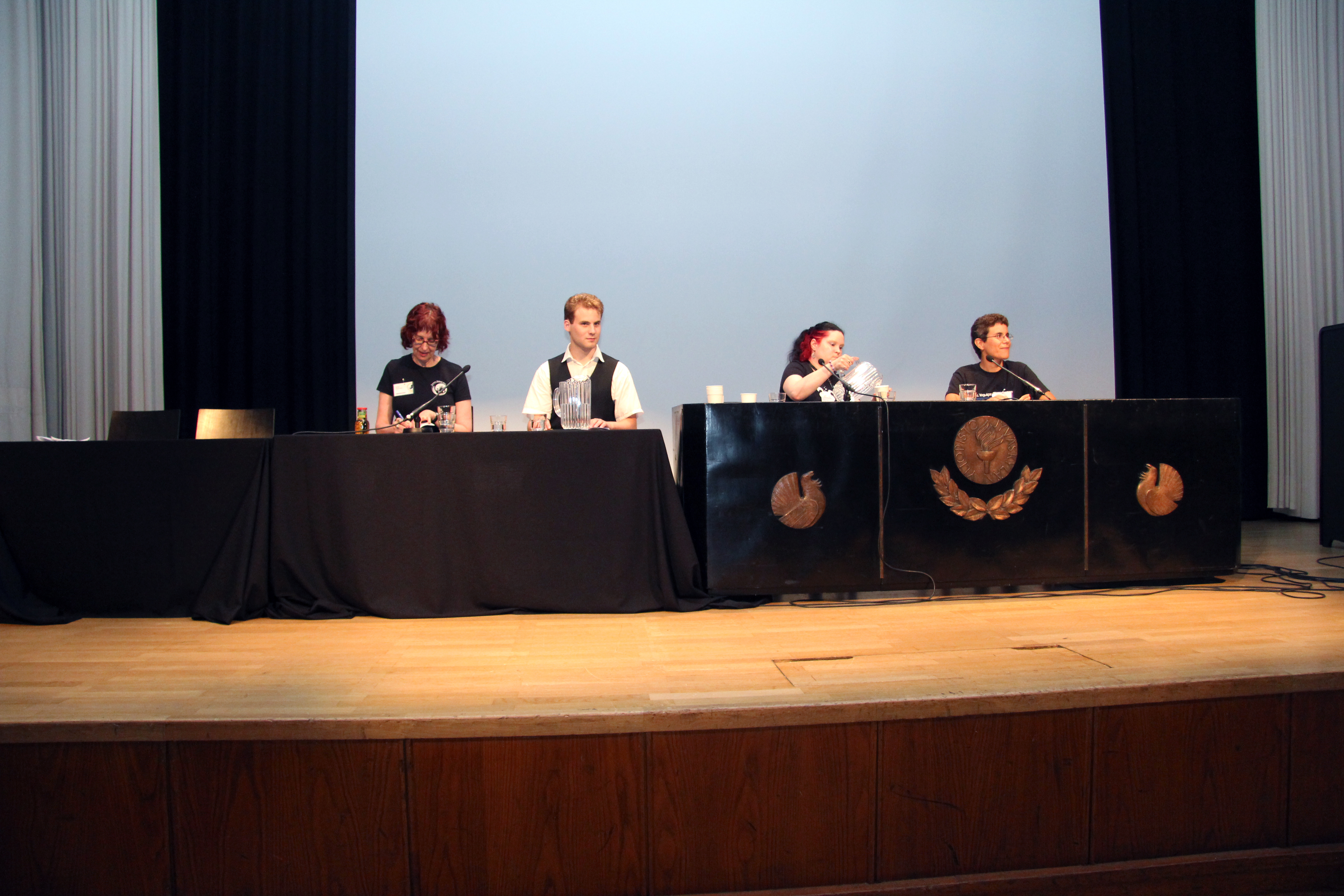 Urban fantasy panel at Finncon 2010. Delia Sherman, Johan Jönsson, Marianna Leikomaa and Carolina Gómez Lagerlöf.